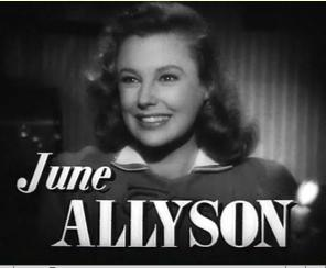 Cropped screenshot of June Allyson from the trailer for the film Music for Millions